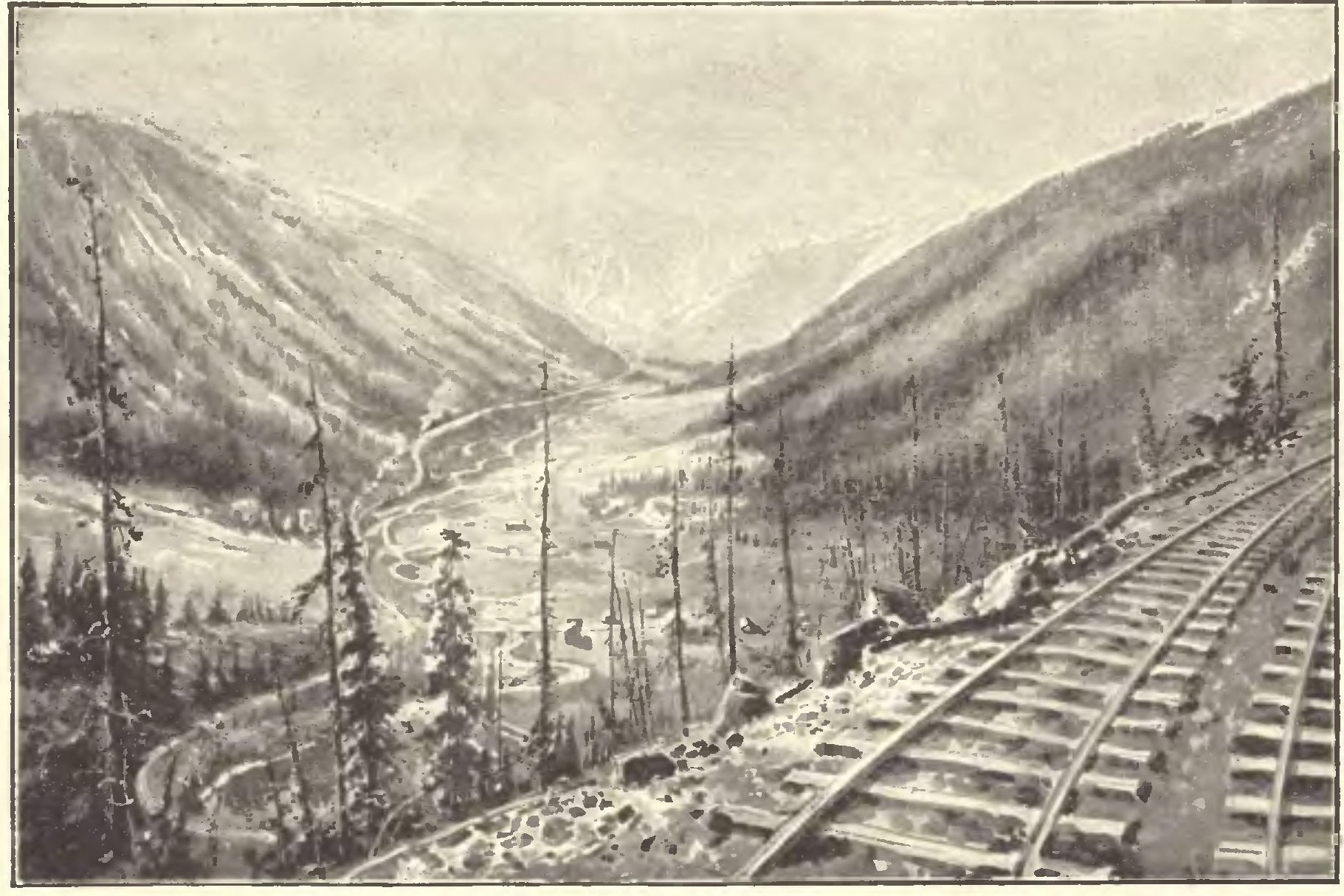 Eastern slope of Marshall Pass in Colorado, as seen from a train of Denver and Rio Grande Western Railroad. Published as an illustration to travelogue "Vlakem do výše věčného sněhu" (By Train to the Heights of Eternal Snow)